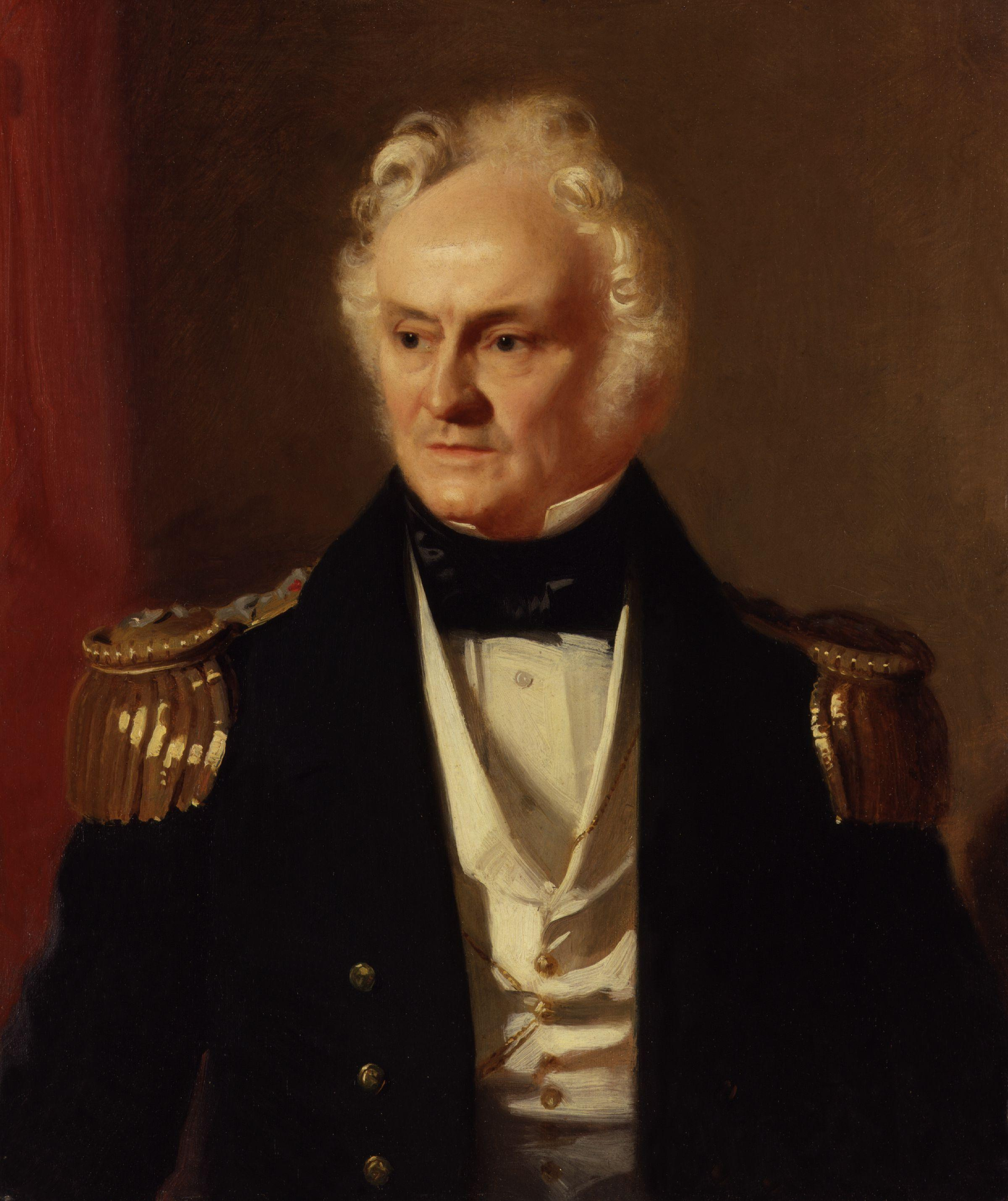 Sir William Edward Parry, by Stephen Pearce (died 1904). All images in this batch have been confirmed as author died before 1939 according to the official death date listed by the NPG.